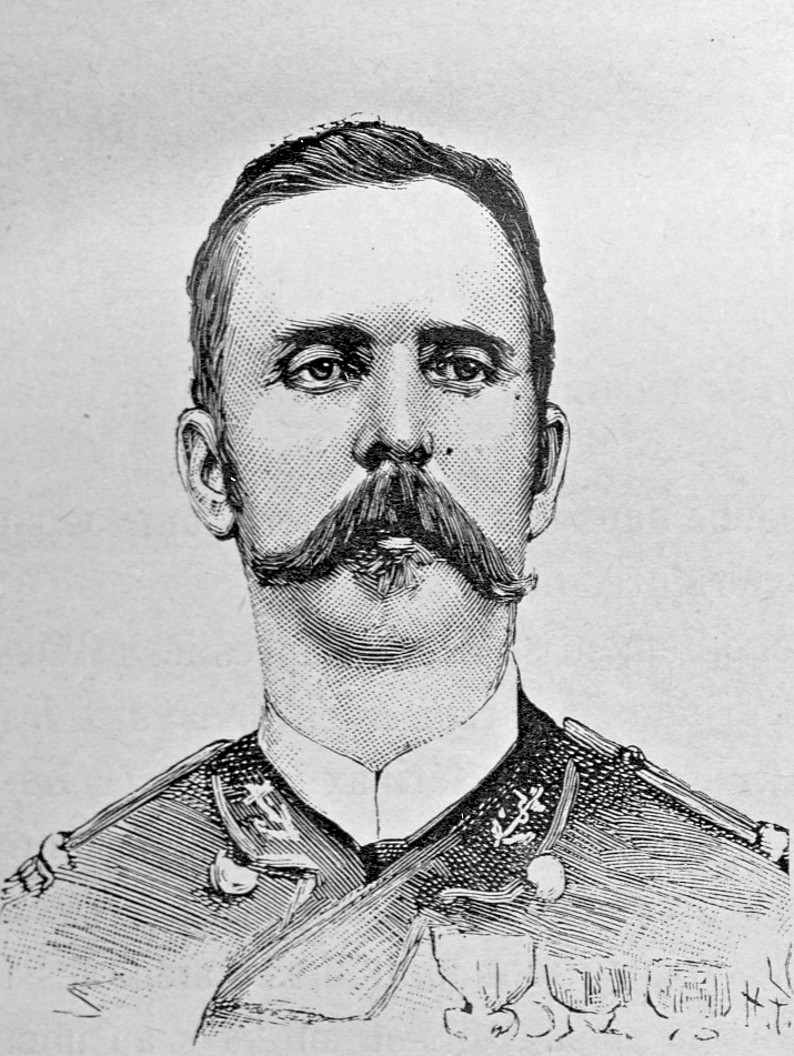 Lieutenant-Colonel Carreau, mortally wounded at the capture of Nam Dinh, 27 March 1883